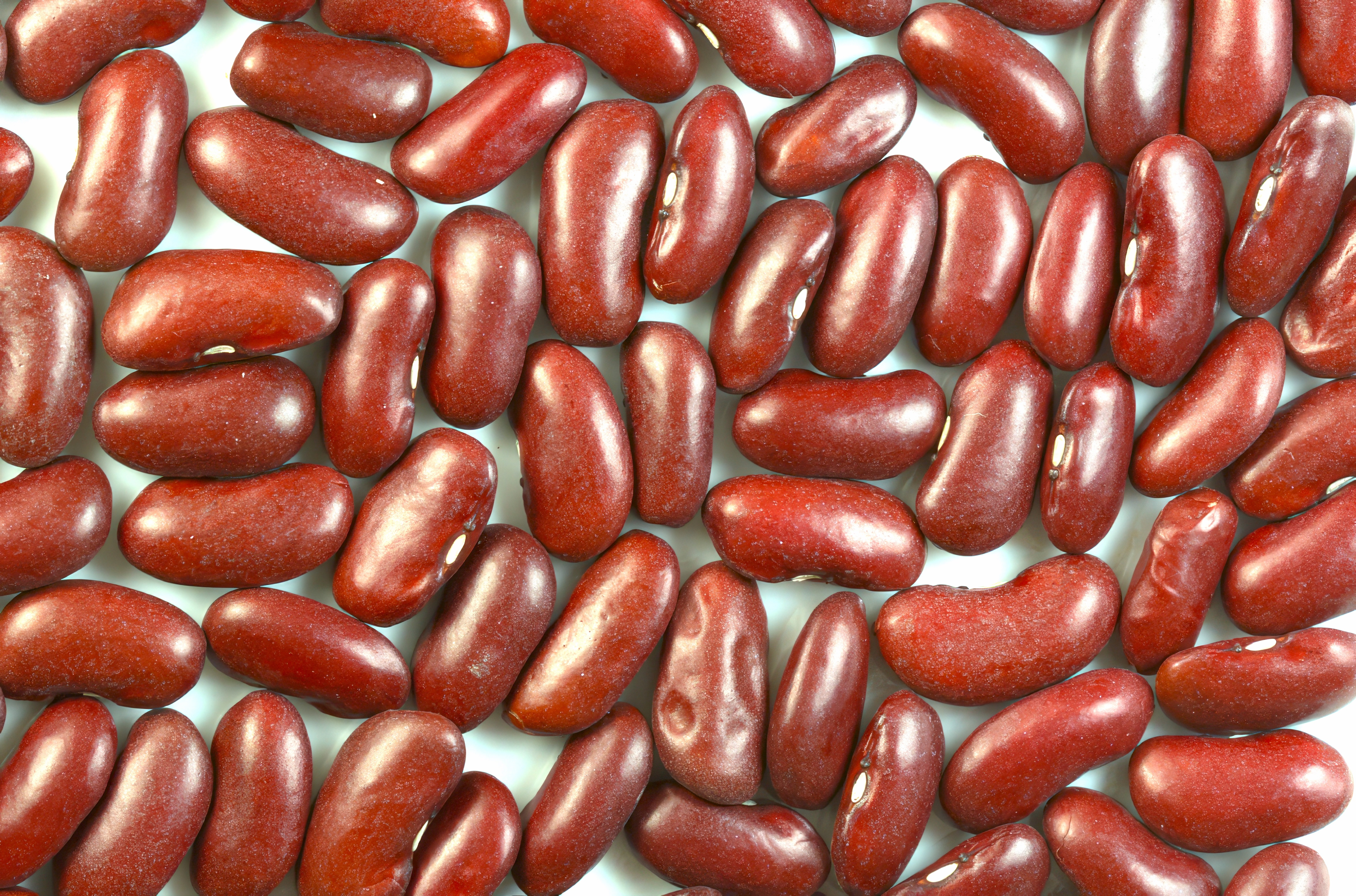 Picture of red kidney beans